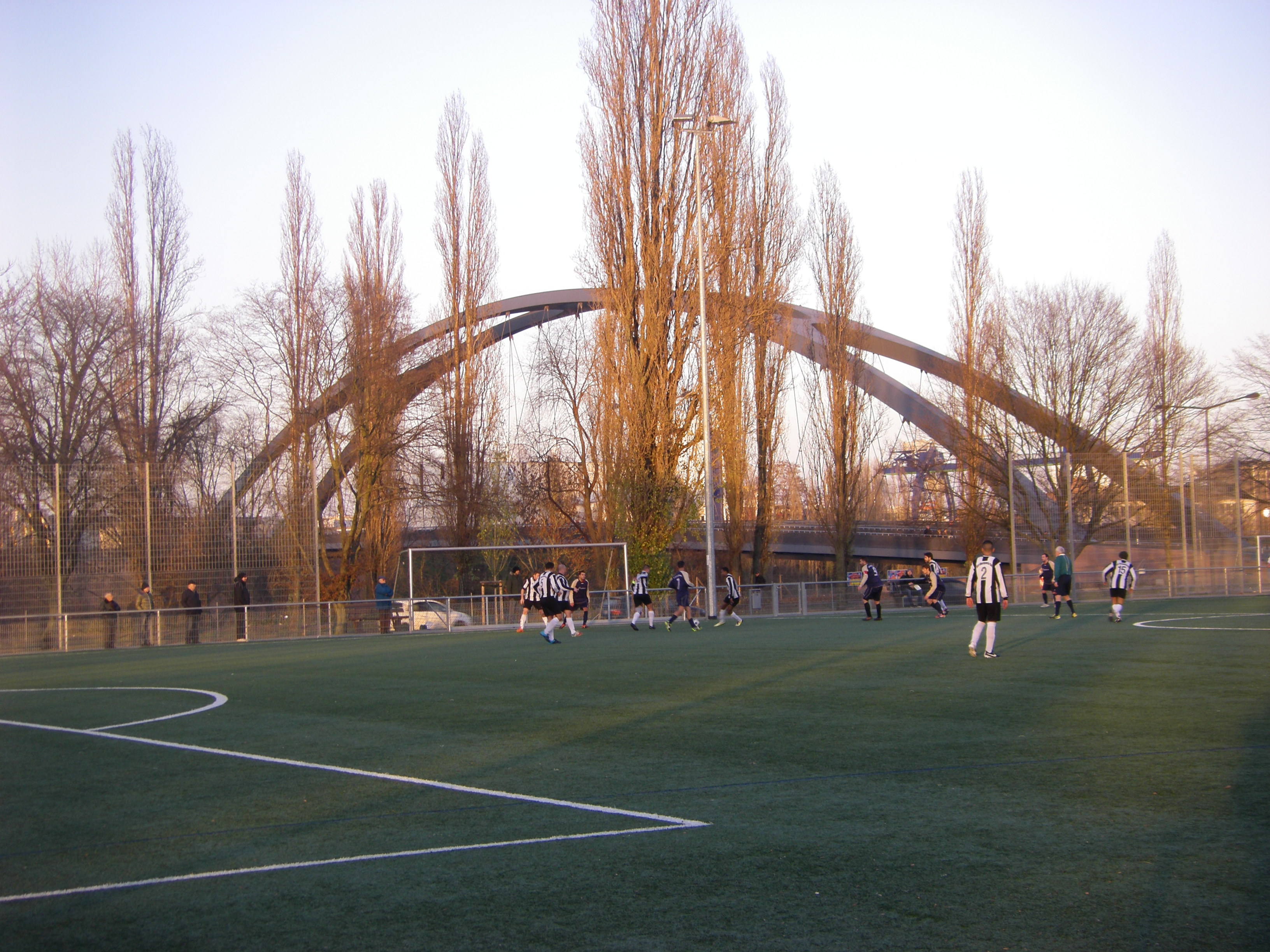 The football ground Mainwasen, home of SV Sachsenhausen and VfL Germania 1894 (in Frankfurt am Main - Sachsenhausen) with view to Deutschherrnbrücke which crosses the River Main.